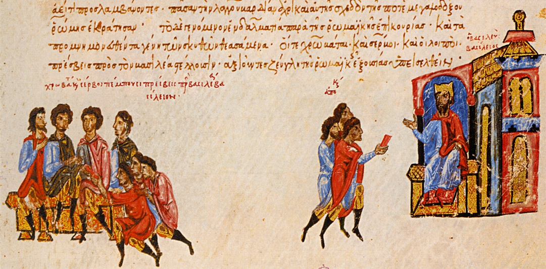 Skyllitzes Matritensis, fol. 96r, detail. Miniature: Delegation of Croats and Serbs to the Byzantine Emperor Basil I. Text from the Chronicle of John Skylitzes: "... When the aforementioned races of Scyths, the Croats, Serbs and the rest of them saw what had happened in Dalmatia as a result of Roman intervention, they sent delegates to emperor requesting to be brought into subjection under Roman rule. This seemed to emperor to be a reasonable request; he received them with kindliness, and they all became subjects of the Roman government and were given governors of their own race and kin. ..." (Translated by John Wortley, in: John Skylitzes: A Synopsis of Byzantine History, 811-1057: Translation and Notes, p. 143) References: Ioannis Scylitzae Synopsis Historiarum. Editio Princeps. Rec. Ioannes Thurn, p. 146-147, in: Corpus Fontium Historiae Byzantinae 5 Series Berolinensis, 1973 Tsamakda V.: The illustrated chronicle of Ioannes Skylitzes in Madrid, p. 131-132 Grabar A., Manoussacas M.: L'illustration du manuscript de Skylitzes de Madrid, p. 60